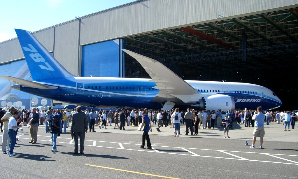 Boeing 787 Dreamliner at roll-out ceremony